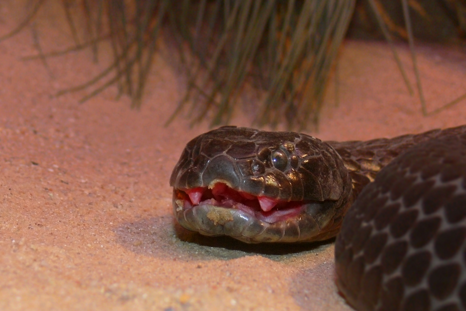 The head and fangs of a Chappell Island Tiger snake.